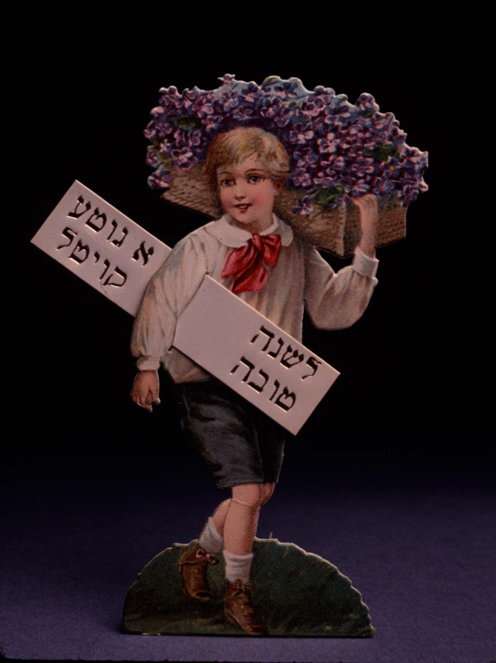 Description: This three-dimensional greeting card from Germany depicts a boy delivering a box of violets and a Rosh Hashanah greeting. Creator: unknown Medium: Paper on board Date: 19th-20th century Persistent URL: Repository: Yeshiva University Museum Accession Number: 1991.022c Rights Information: No known copyright restrictions; may be subject to third party rights. For more copyright information, click here. See more information about this image and others at CJH Digital Collections.